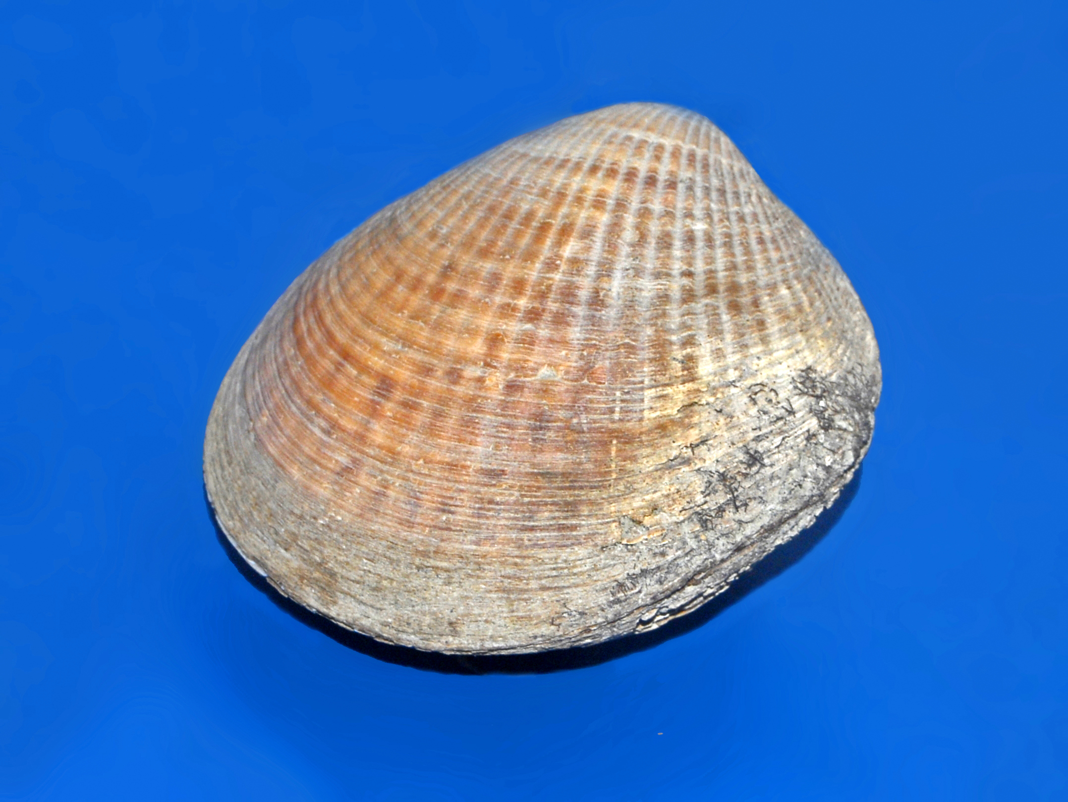 Shell of Tucetona laticostata from Californiay at the Museo Civico di Storia Naturale di Milano